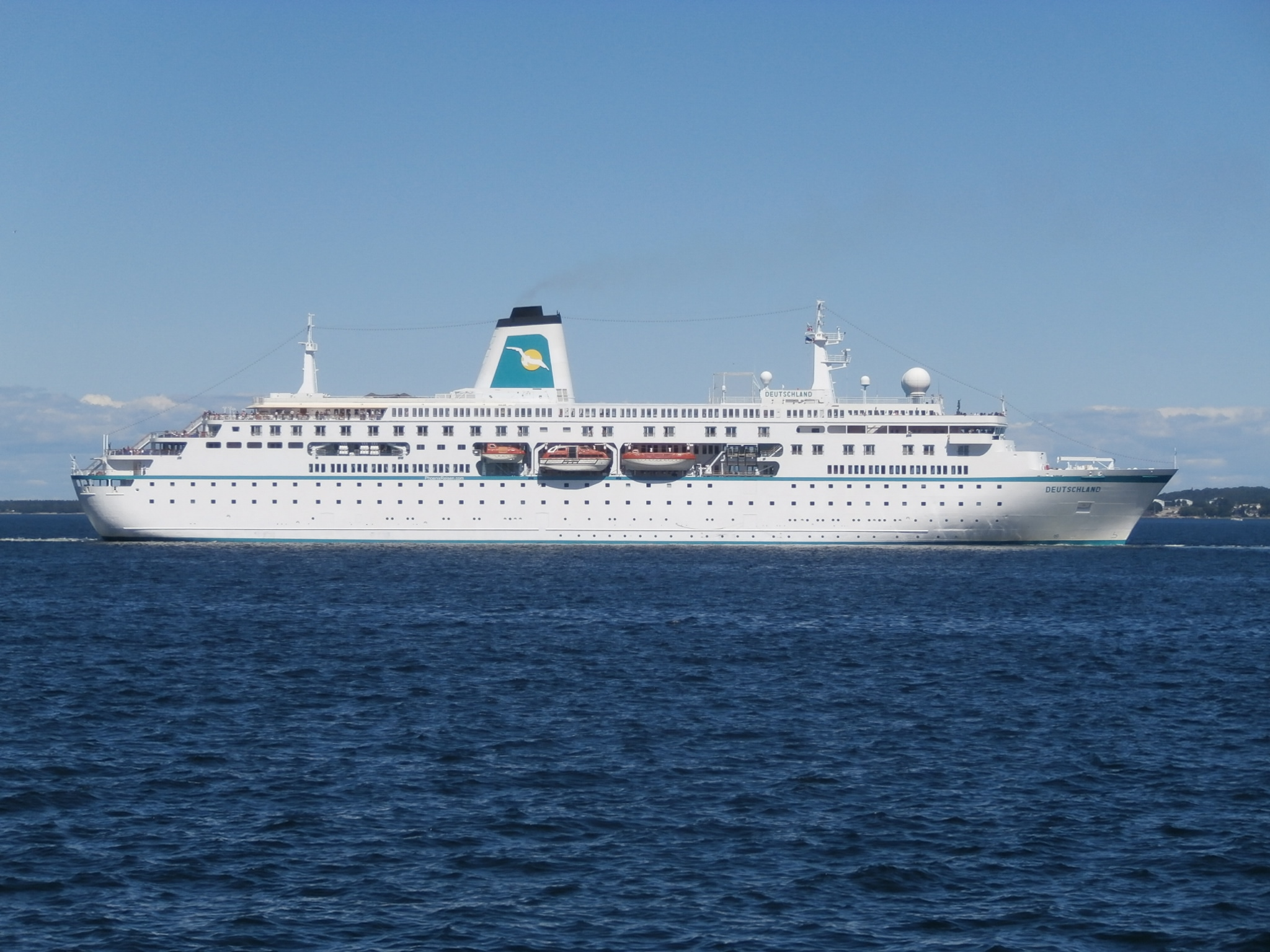 Deutschland starboard side, Tallinn 7 July 2017